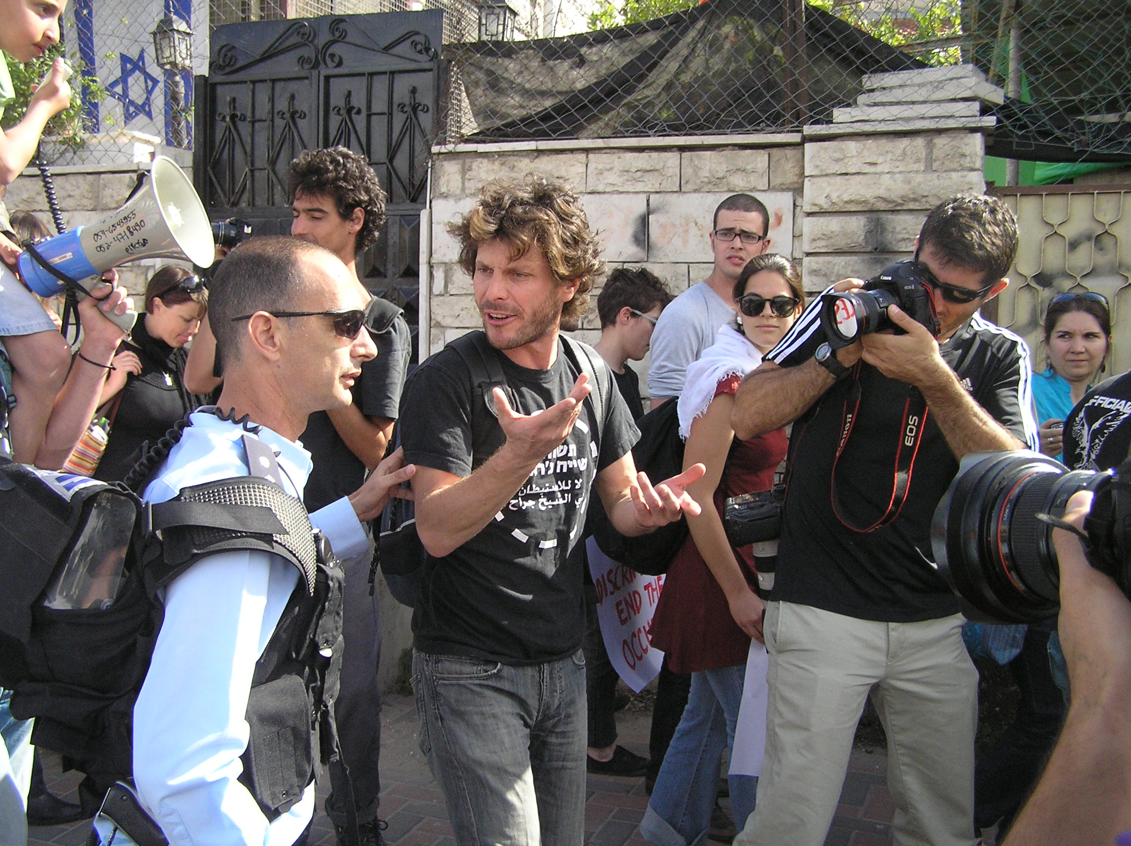 Demonstrator against eviction of Palestinian families from Sheikh Jarrah arguing with policemen